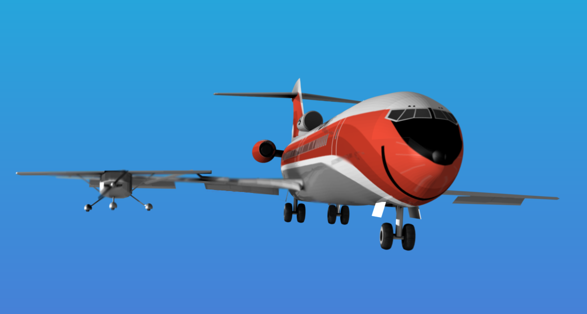 PSA Flight 182